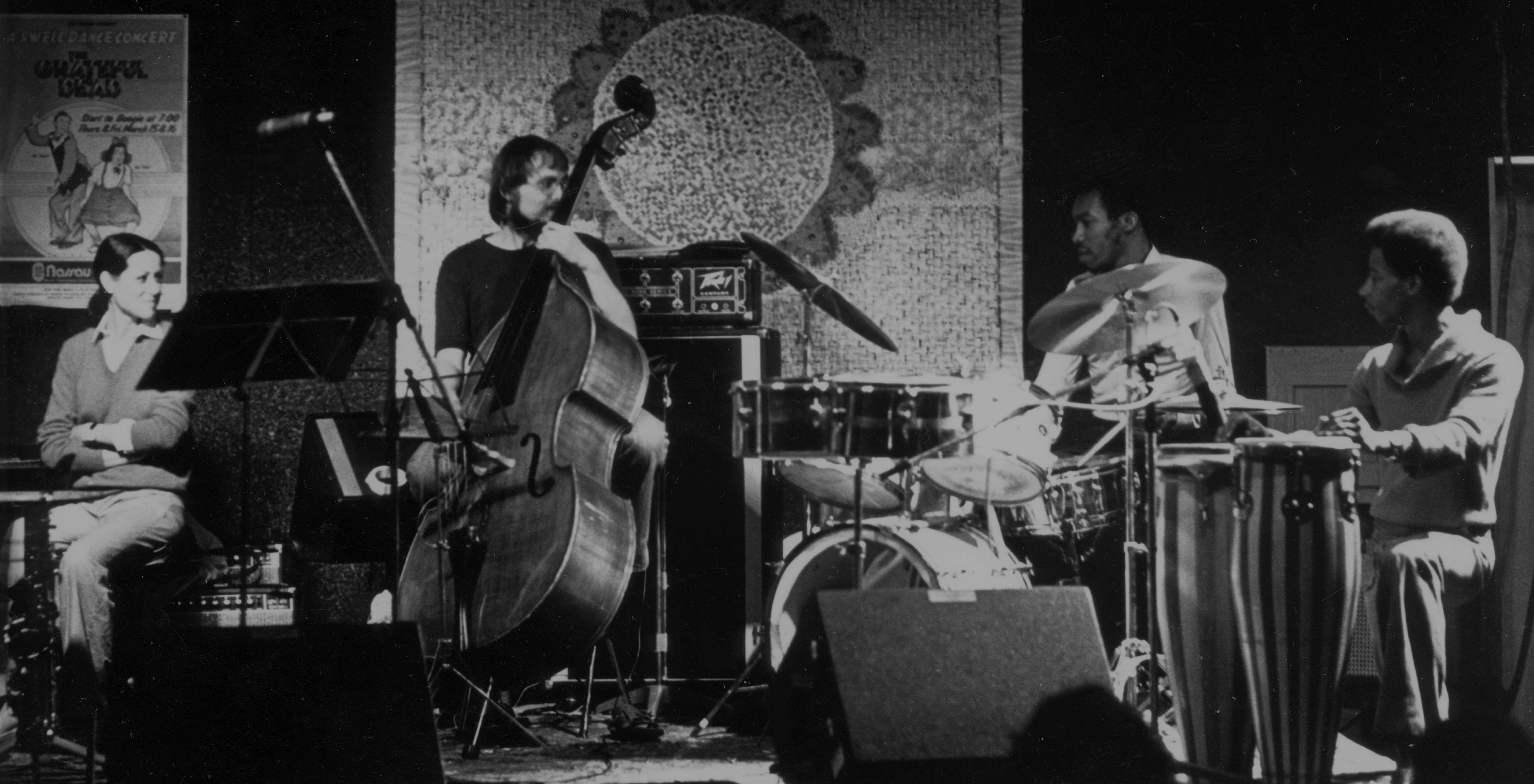 Isabelle Leymarie playing at the New Morning of Geneva